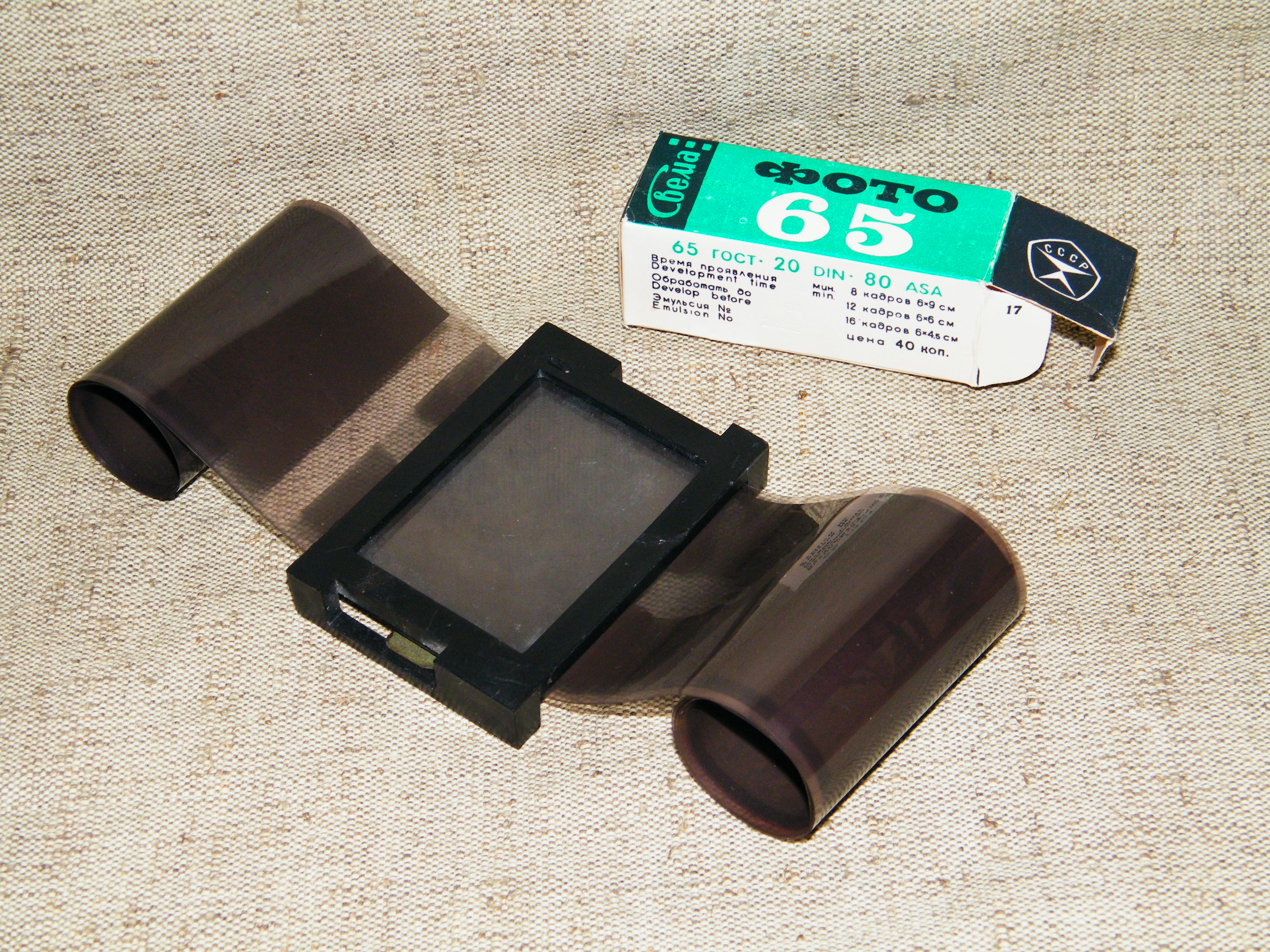 Рамка для контактной печати БелОМО